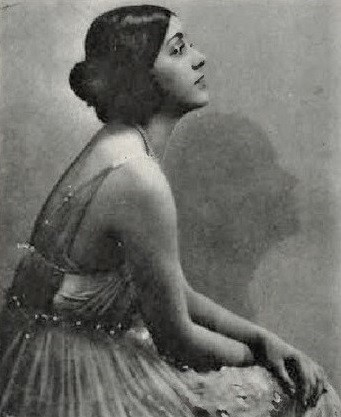 Ethelind Terry